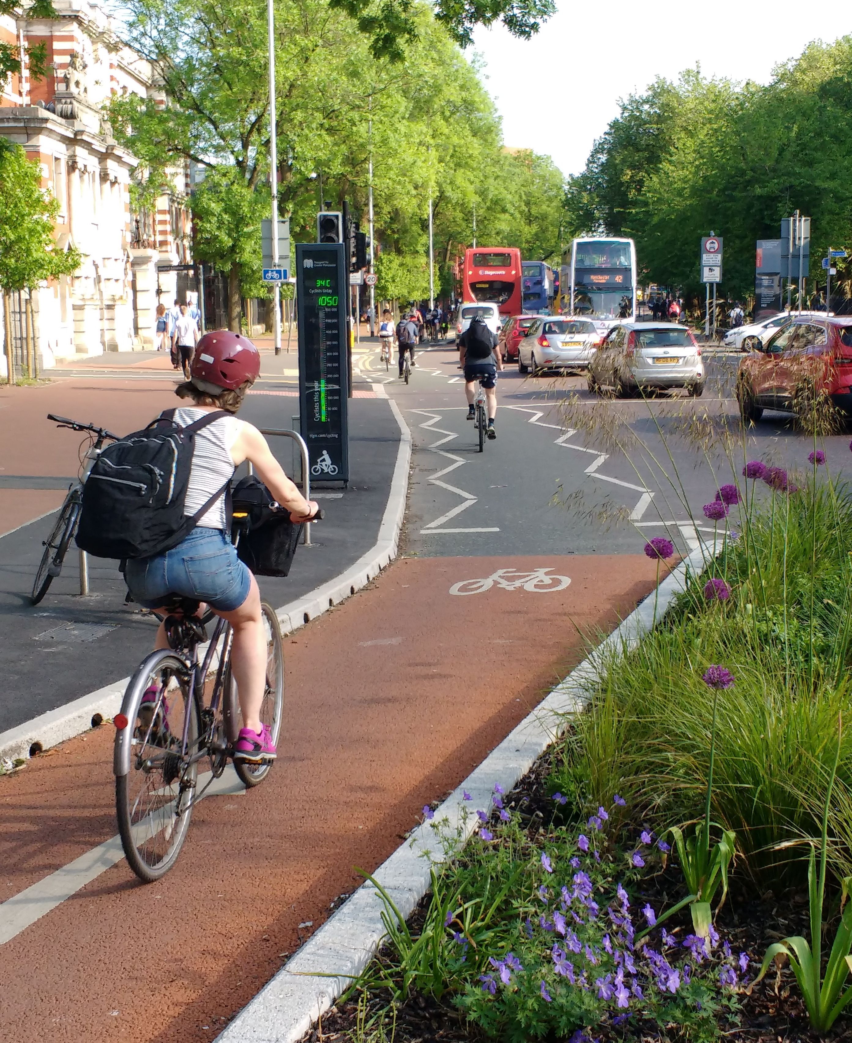 Cyclists using the new cycle lane on Oxford Road, Manchester, passing an electronic counter across the road from Whitworth Park.